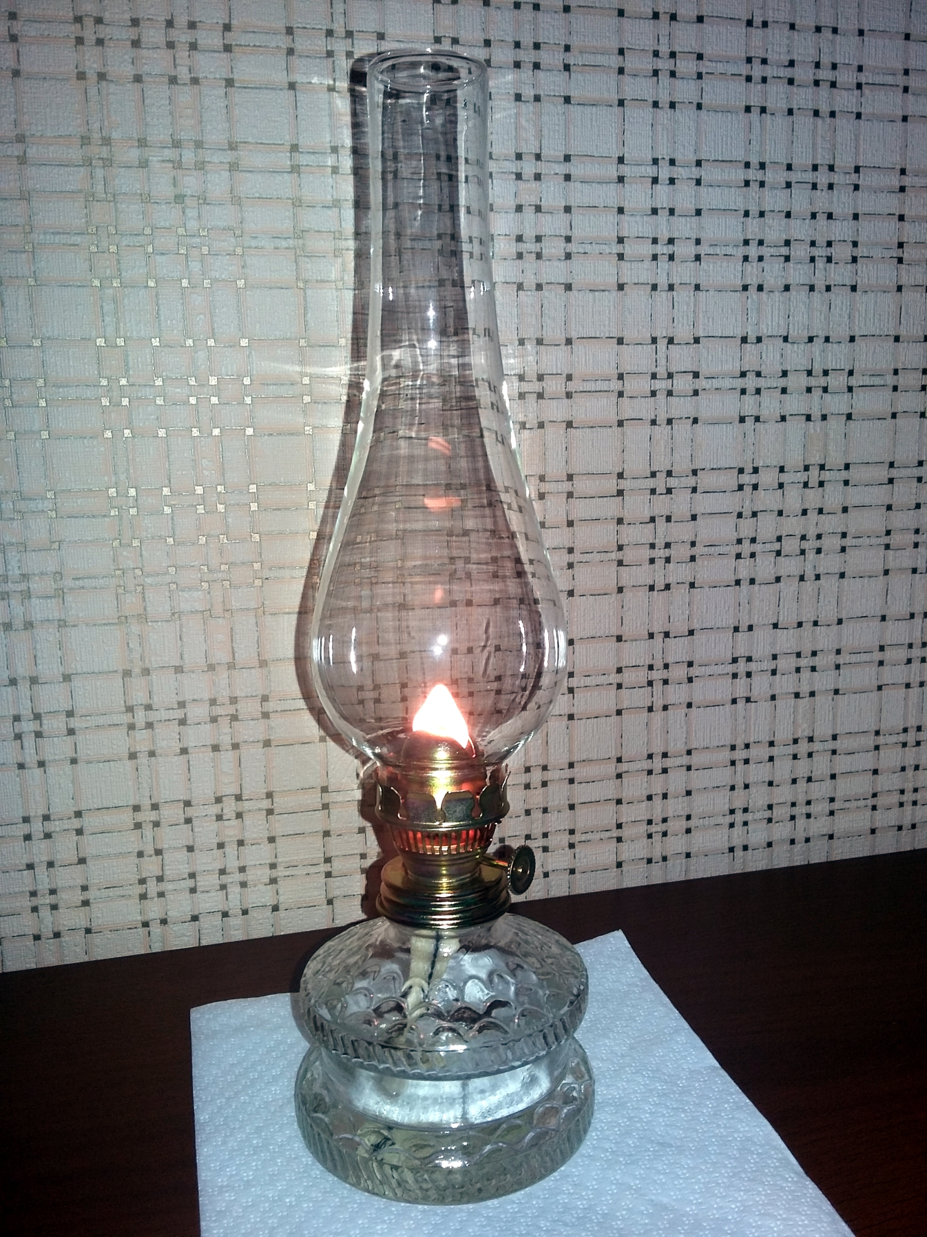 Modern kerosene lamp made in Czech Republik